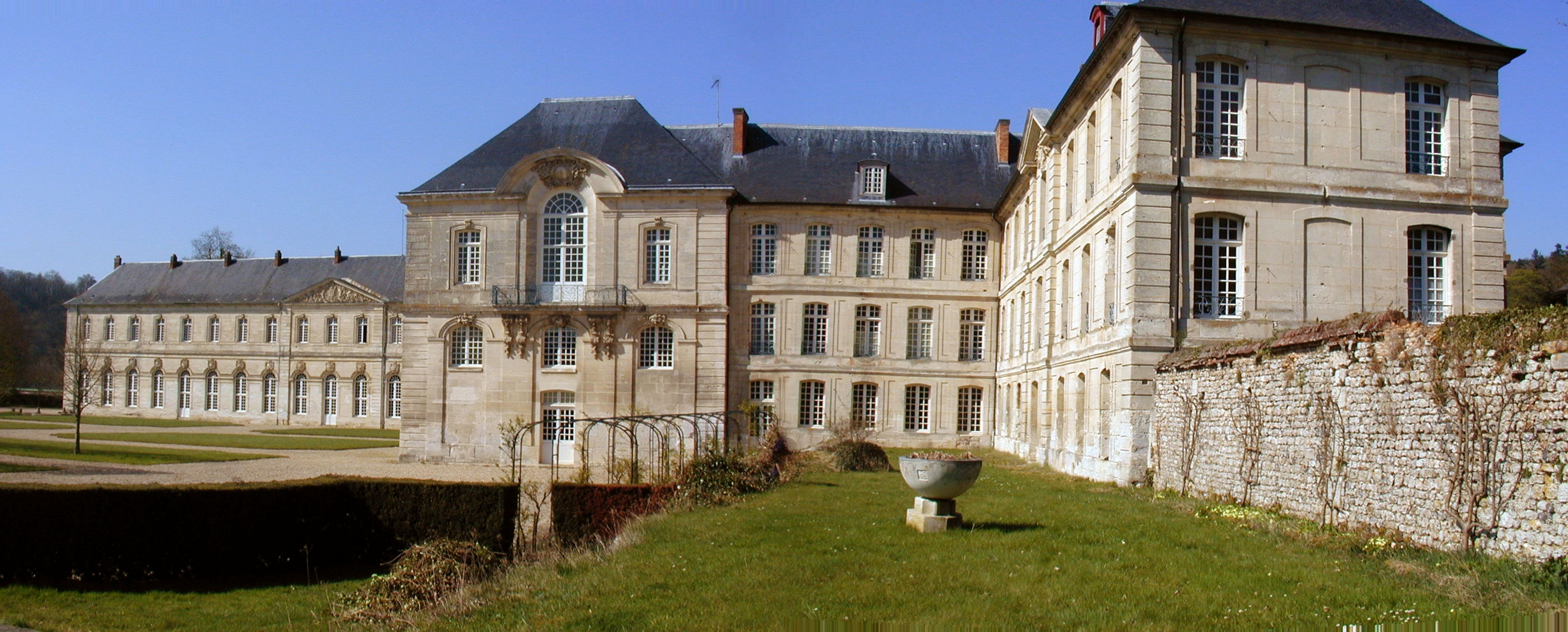 Abbaye in Le Bec-Hellouin (Normandy - France), South side, the church and the monks cells.